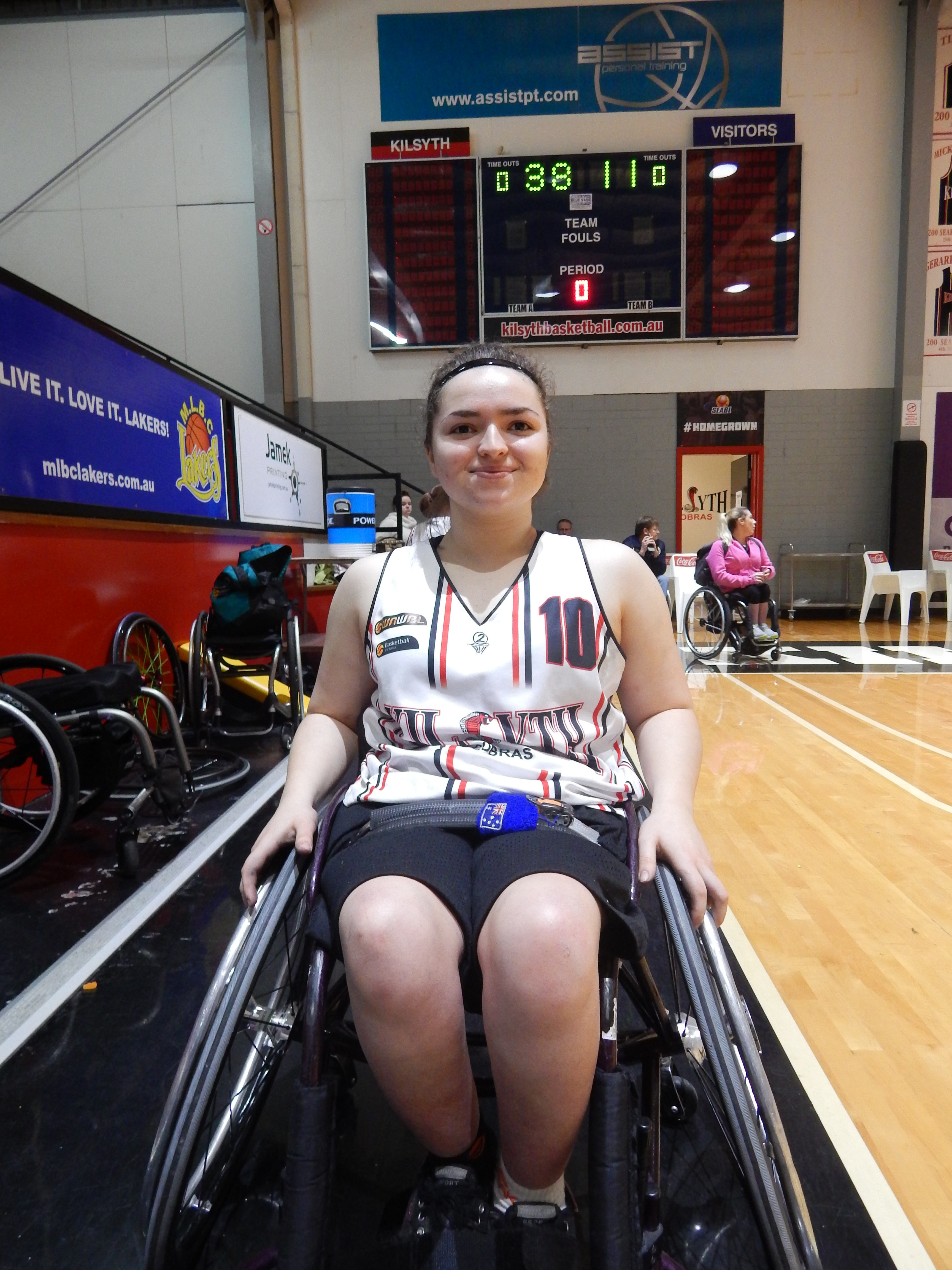 Isabel Martin of the Kilsyth Cobras